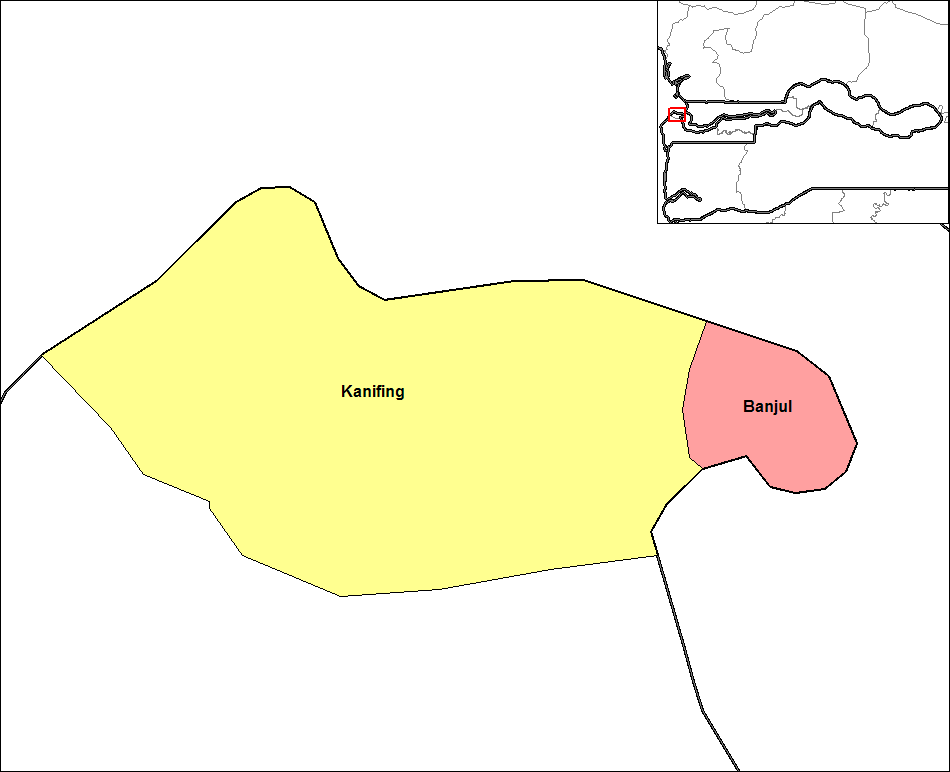 Map of the districts of Banjul division in The Gambia. Created by Rarelibra 16:43, 14 September 2006 (UTC) for public domain use, using MapInfo Professional v8.5 and various mapping resources.